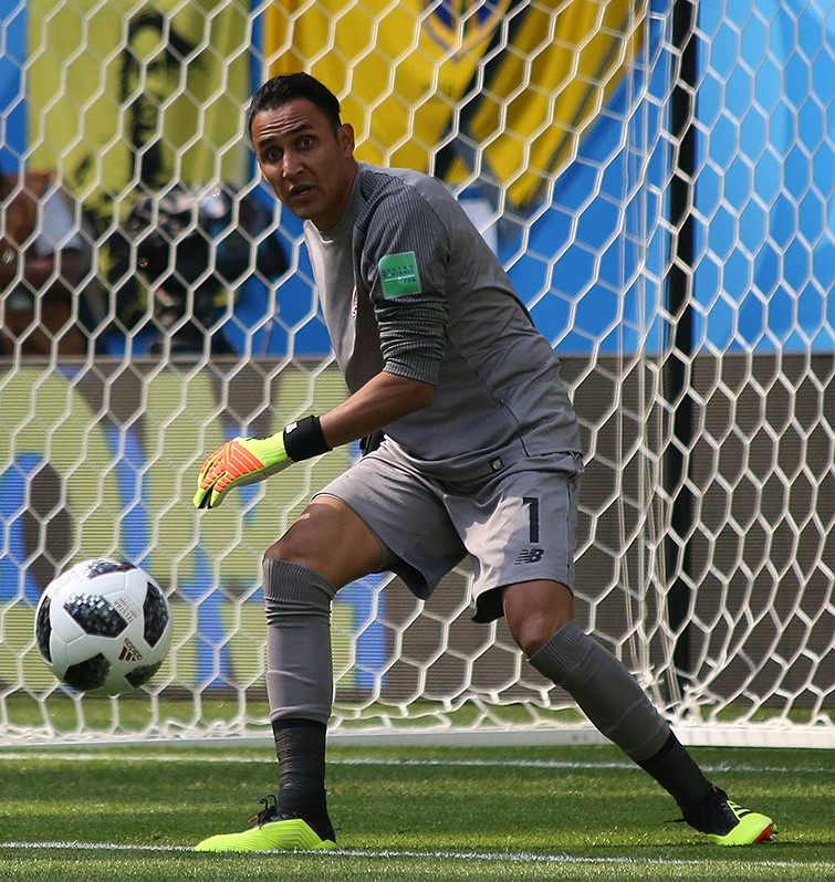 Keylor Navas